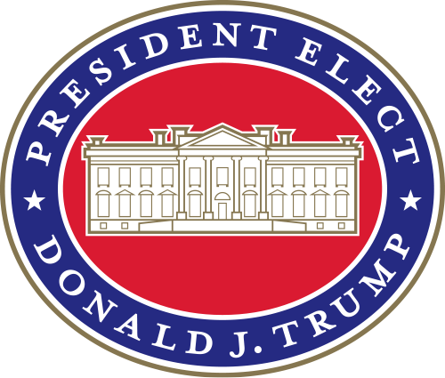 Trump Transition Logo